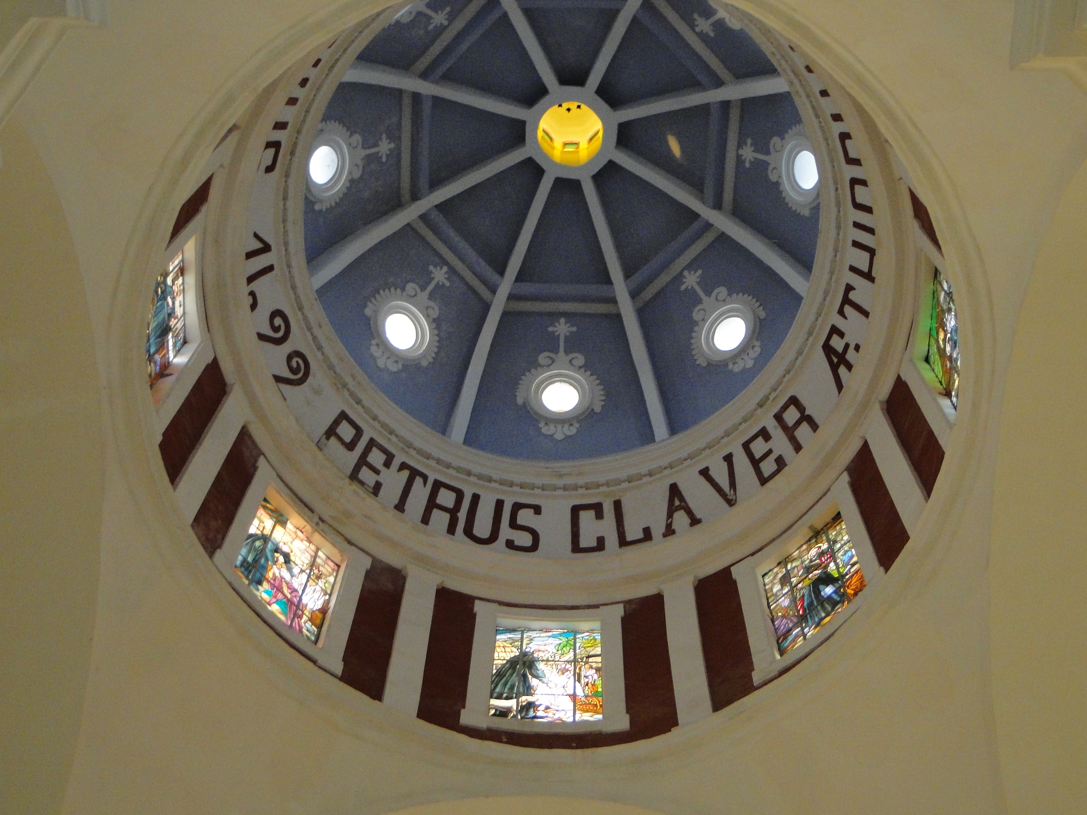 The cupol of the church San Pedro Claver (Cartagena)